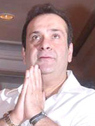 Rajiv Kapoor at Bonny Duggal Bash. Photo: FilmiTadka.